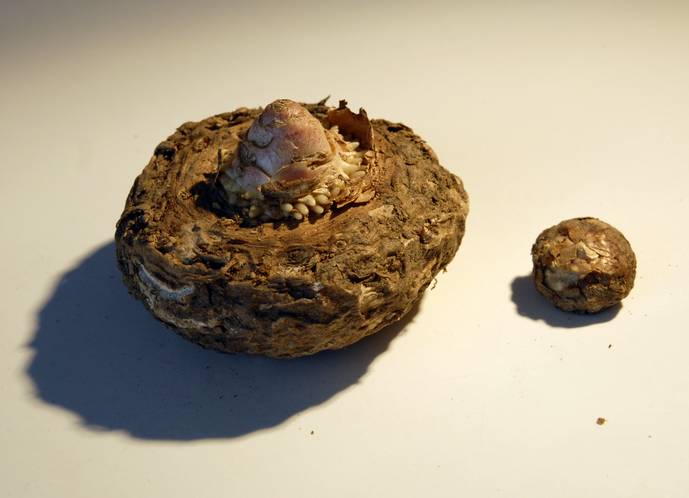 Dracunculus vulgaris tuber & tubercle